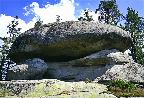 Selanow buk shrine BG